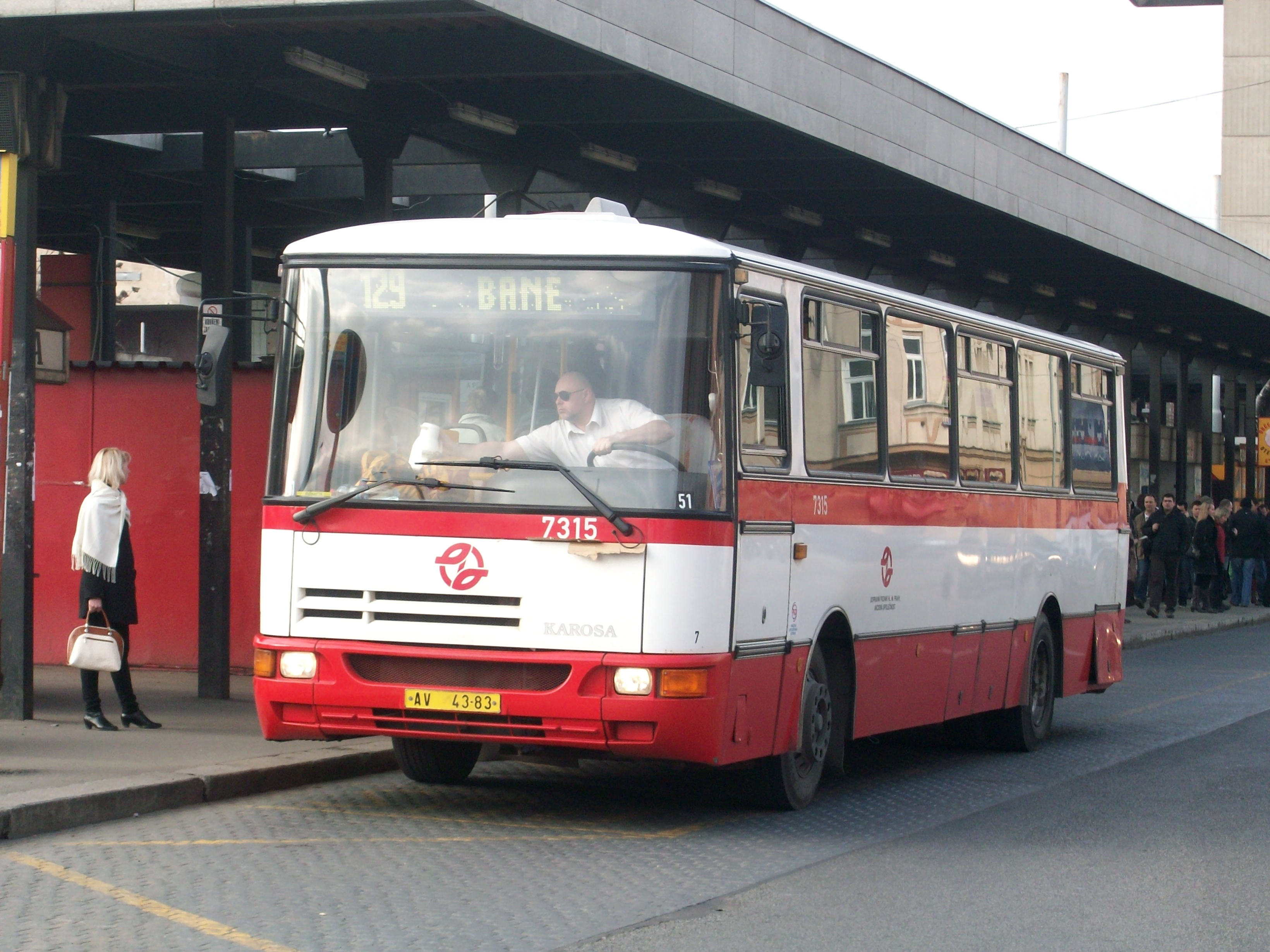 Karosa B 931 in Prague